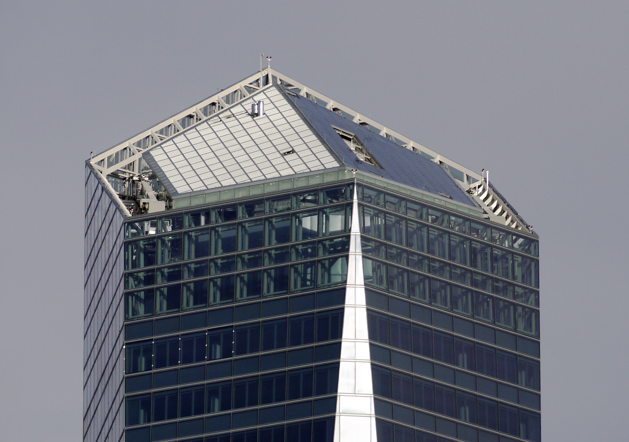 Madrid Cuatro Business Area, Torre de Cristal. Madrid, Spain